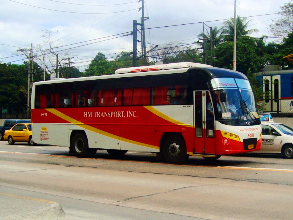 Santarosa Motor Works, Inc. Daewoo BF106 SR Cityliner oprated by HM Transport, Inc. (Mercado Group of Bus Companies) - Philippines